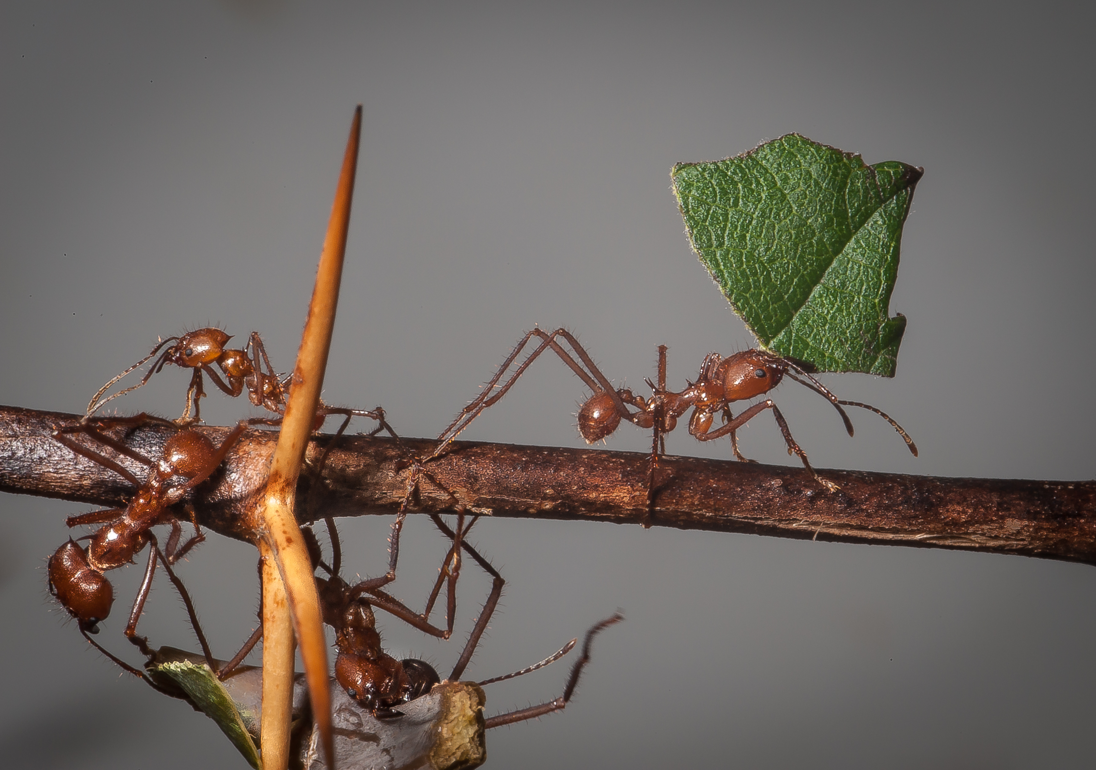 Atta cephalotes (Leaf-cutter ants), Wilhelma Zoo, Stuttgart, Germany